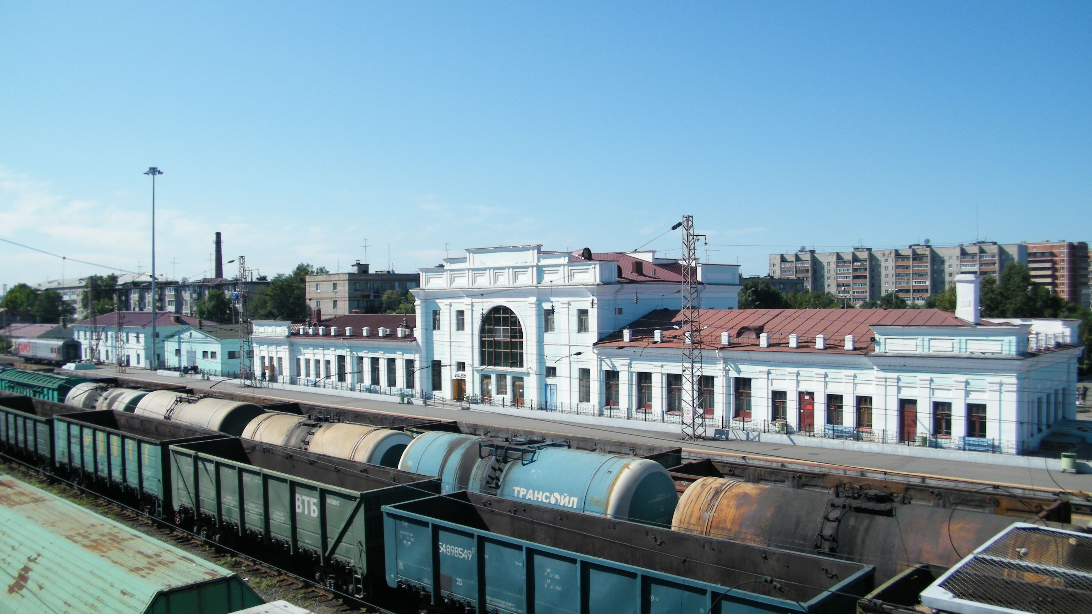 Ussuriysk